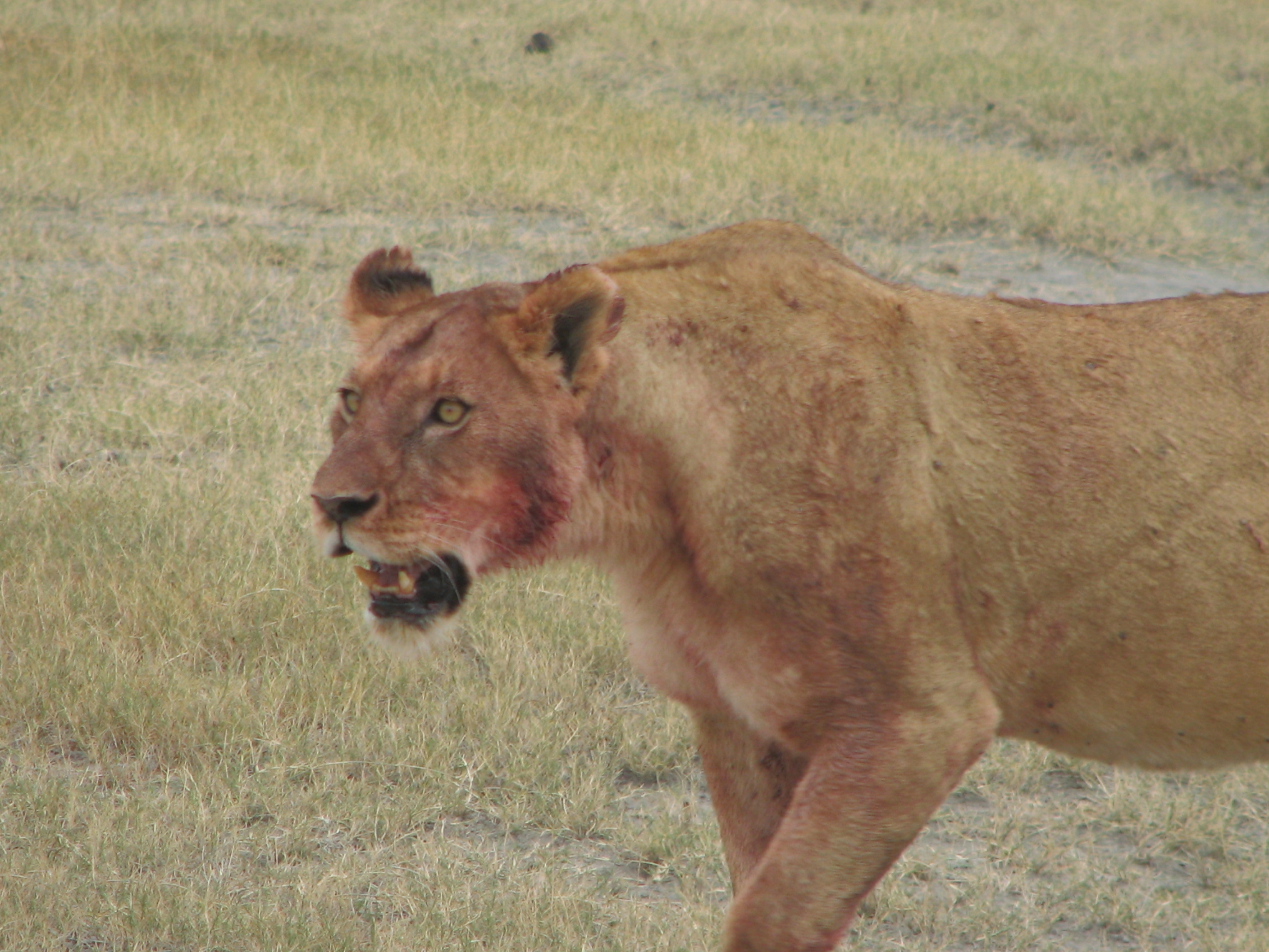 This is an image of food from Tanzania